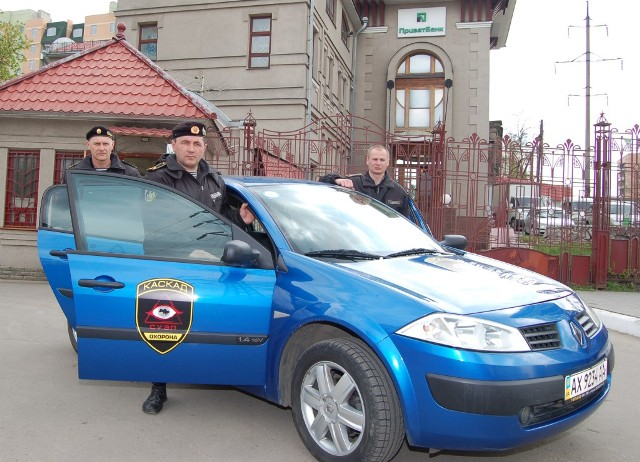 Rapid response team